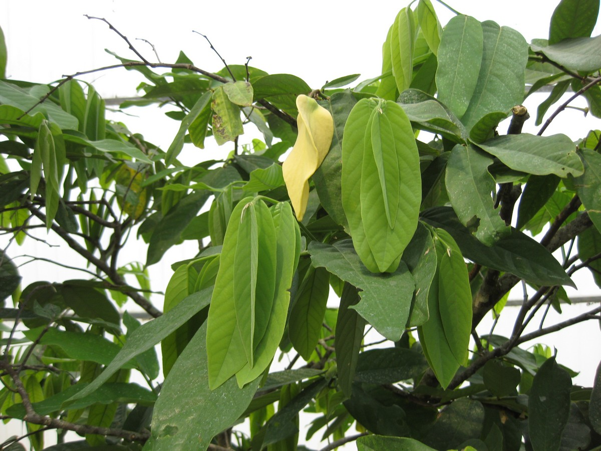 Dasymaschalon blumei Finet & Gagnep. var. suratense Bân. Photographed at the Queen Sirikit Botanic Garden (Chiang Mai Province, Thailand) in March